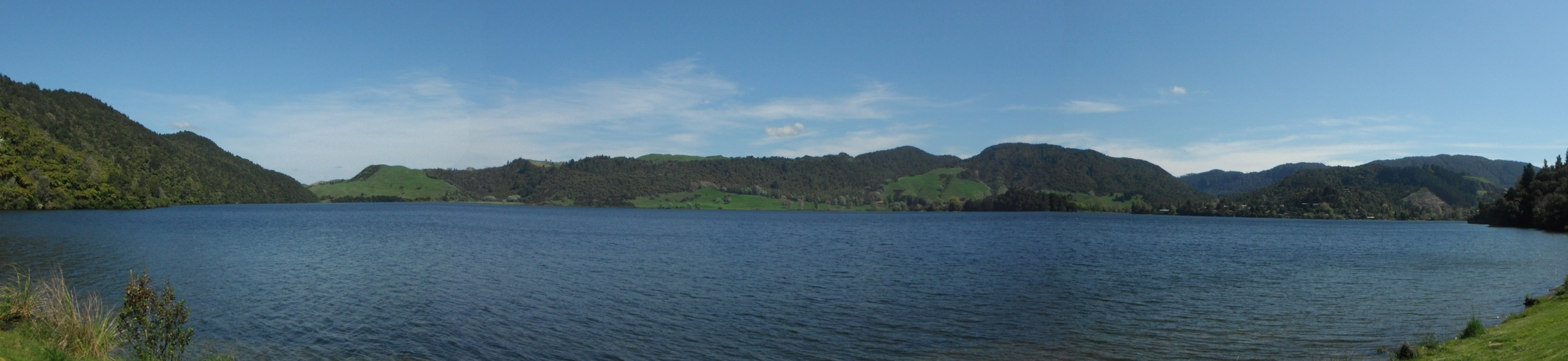 Lake Okareka from DOC Campsite